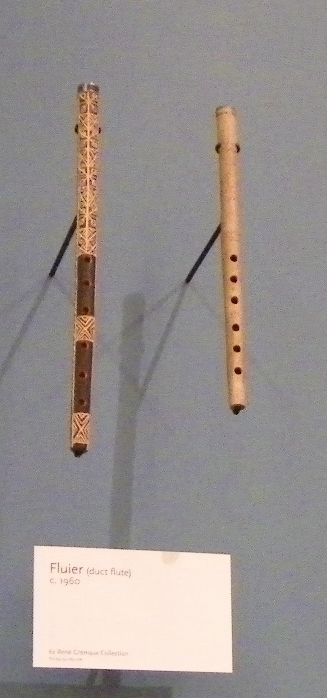 A pair of fluier (duct flute) Photograph of musical instruments taken at the Musical Instrument Museum (Phoenix) on 2011-04-26.